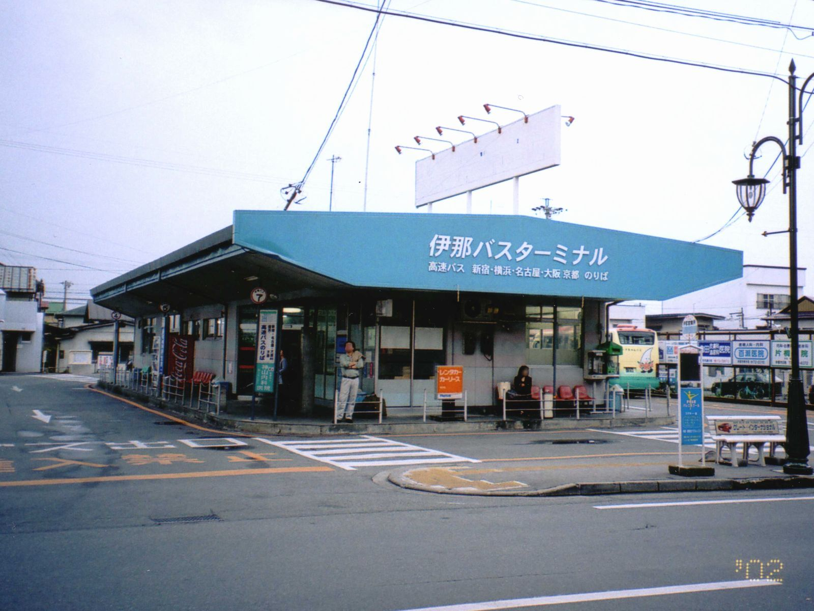 Ina Bus Terminal